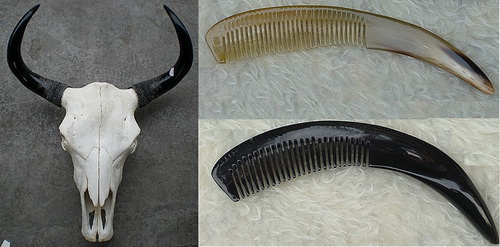 Horn comb